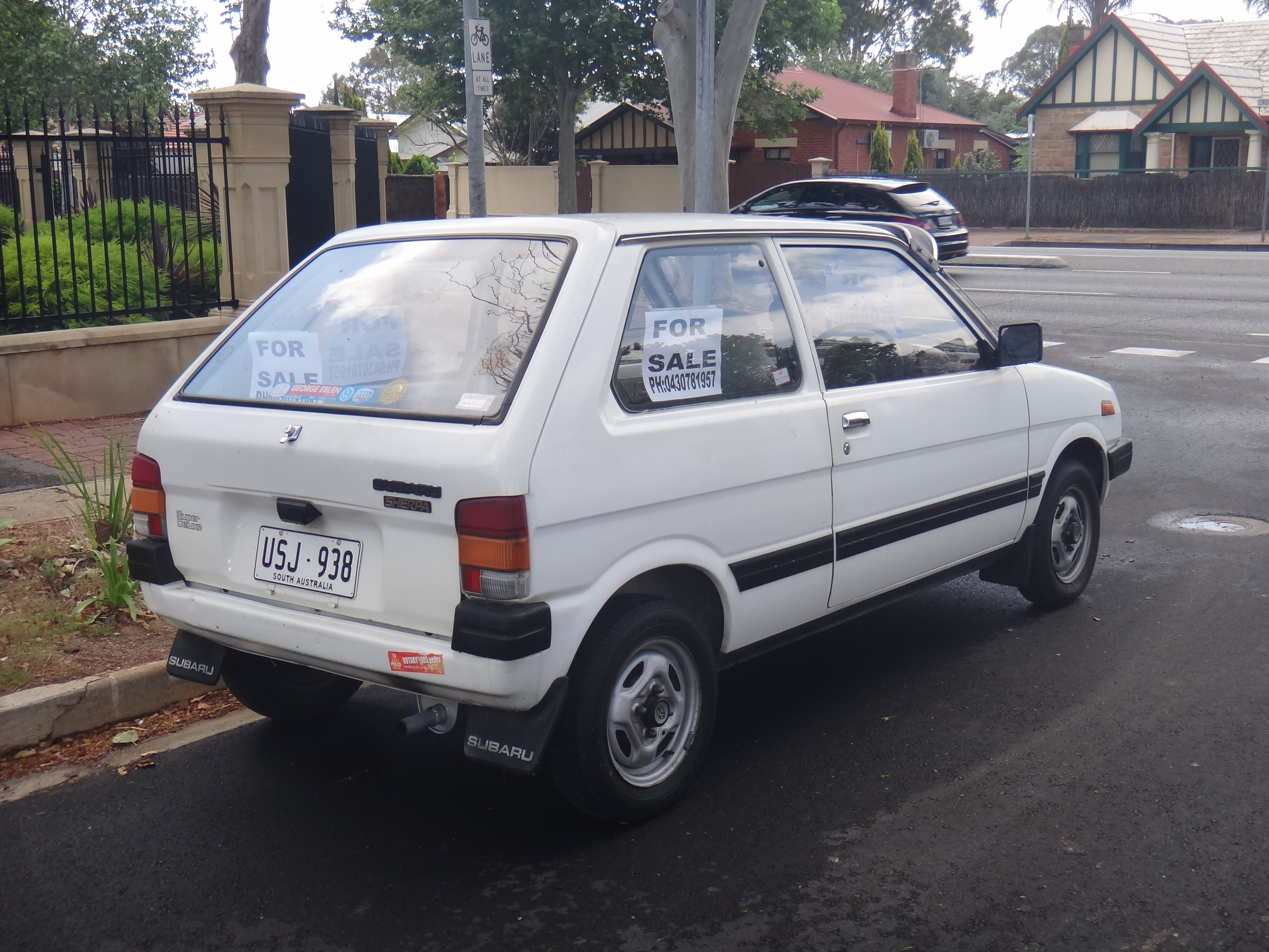 Very tidy example of a rare car on the roads here. Was snapped up very quickly!